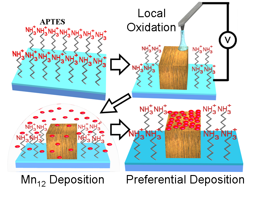 Procedure for the patterning of Mn12 single molecule magnets using surface functionalizations and local oxidation naolithography.